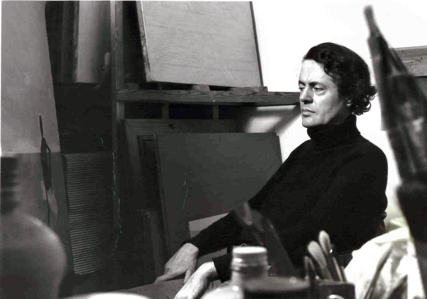 Depicted person: Adrian Morris – English painter